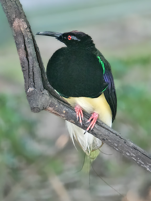 Seleucidis melanoleucus